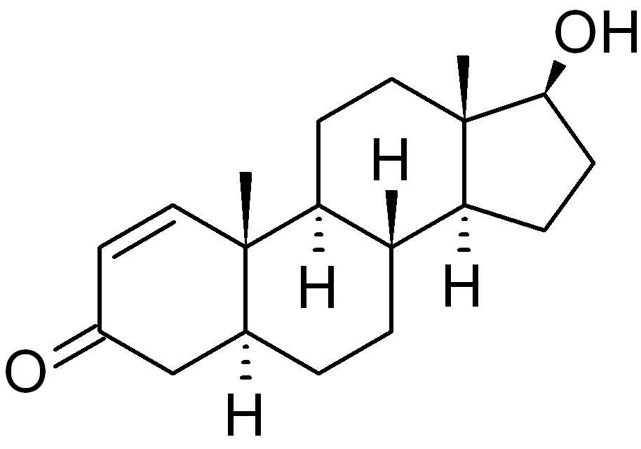 chemical structure of 1-testosterone